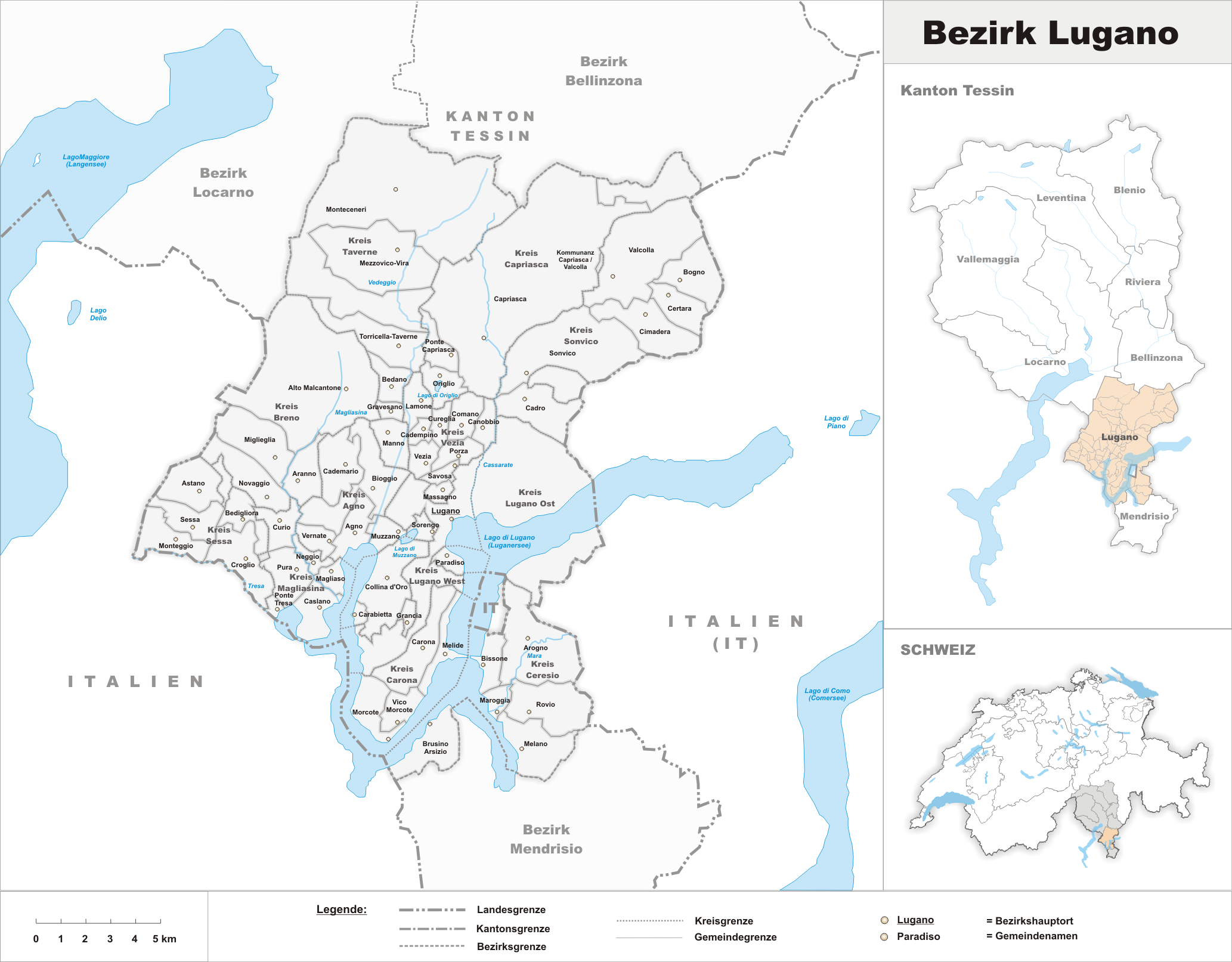 Municipalities in the district of Lugano